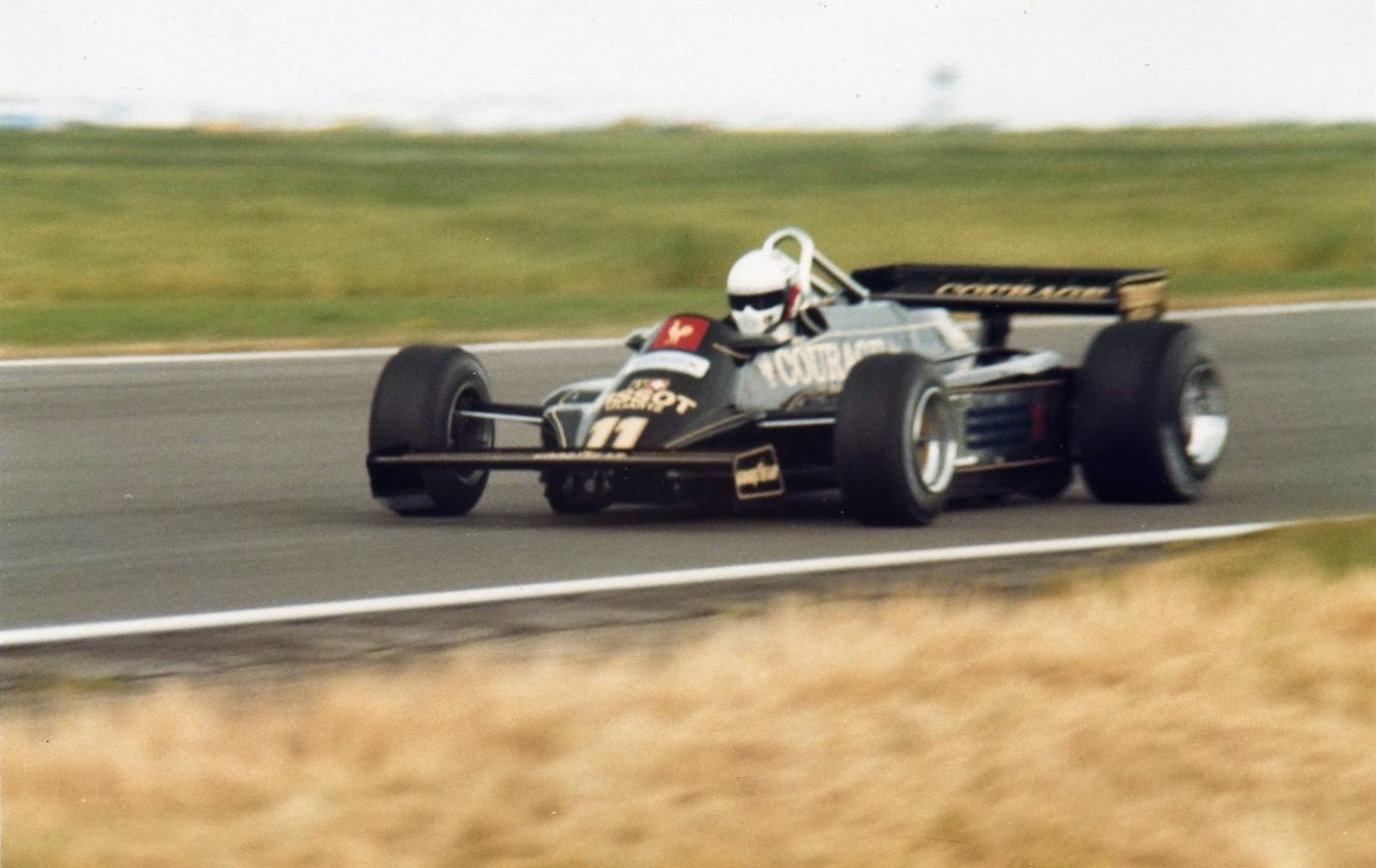 Elio De Angelis Silverstone 1981 - This is a photograph that I took myself and I have used it on my own website